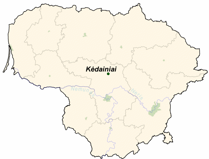 Kėdainiai on the map of Lithuania